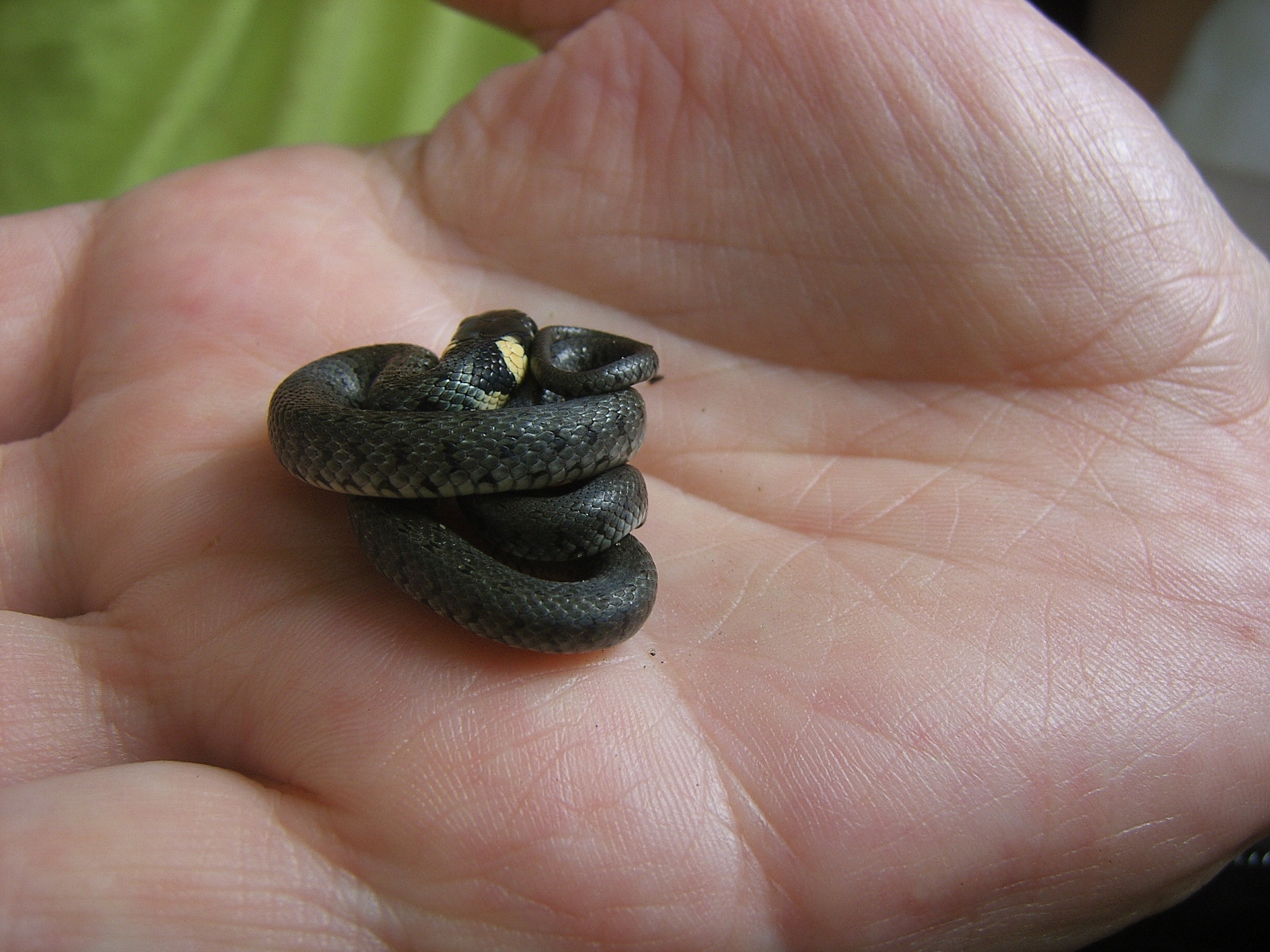 Juvenile Natrix natrix, found near Iława, Poland